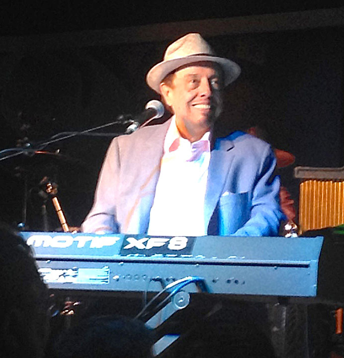 Image of Sergio Mendes seated before a keyboard, February 1, 2016.